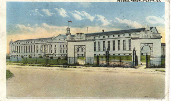 United States Penitentiary, Atlanta — a a medium-security Federal prison for male inmates, in the Boulevard district of Atlanta, Georgia. Operated by the Federal Bureau of Prisons.